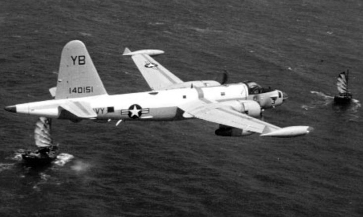 A U.S. Navy Lockheed SP-2H Neptune (BuNo 140151) of Patrol Squadron VP-1 Fleet's Finest over Vietnamese junks, flying a "Market Time" mission during the Vietnam War. The SP-2H 140151 was retired to the MASDC on 17 February 1972.